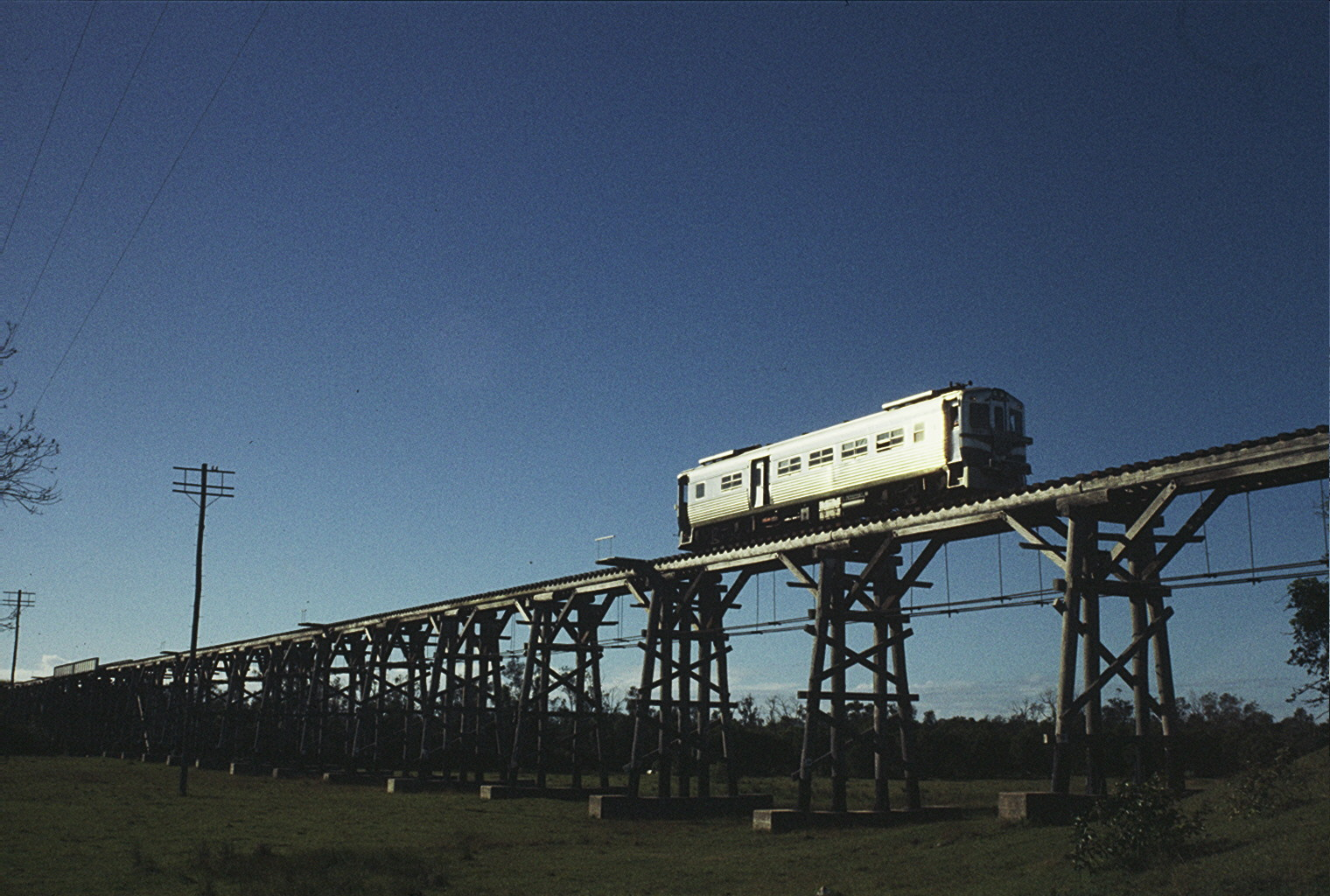 RM 1901 crossing the Splitters Creek bridge on the Gin Gin (formerly Mt Perry) line, ~1989